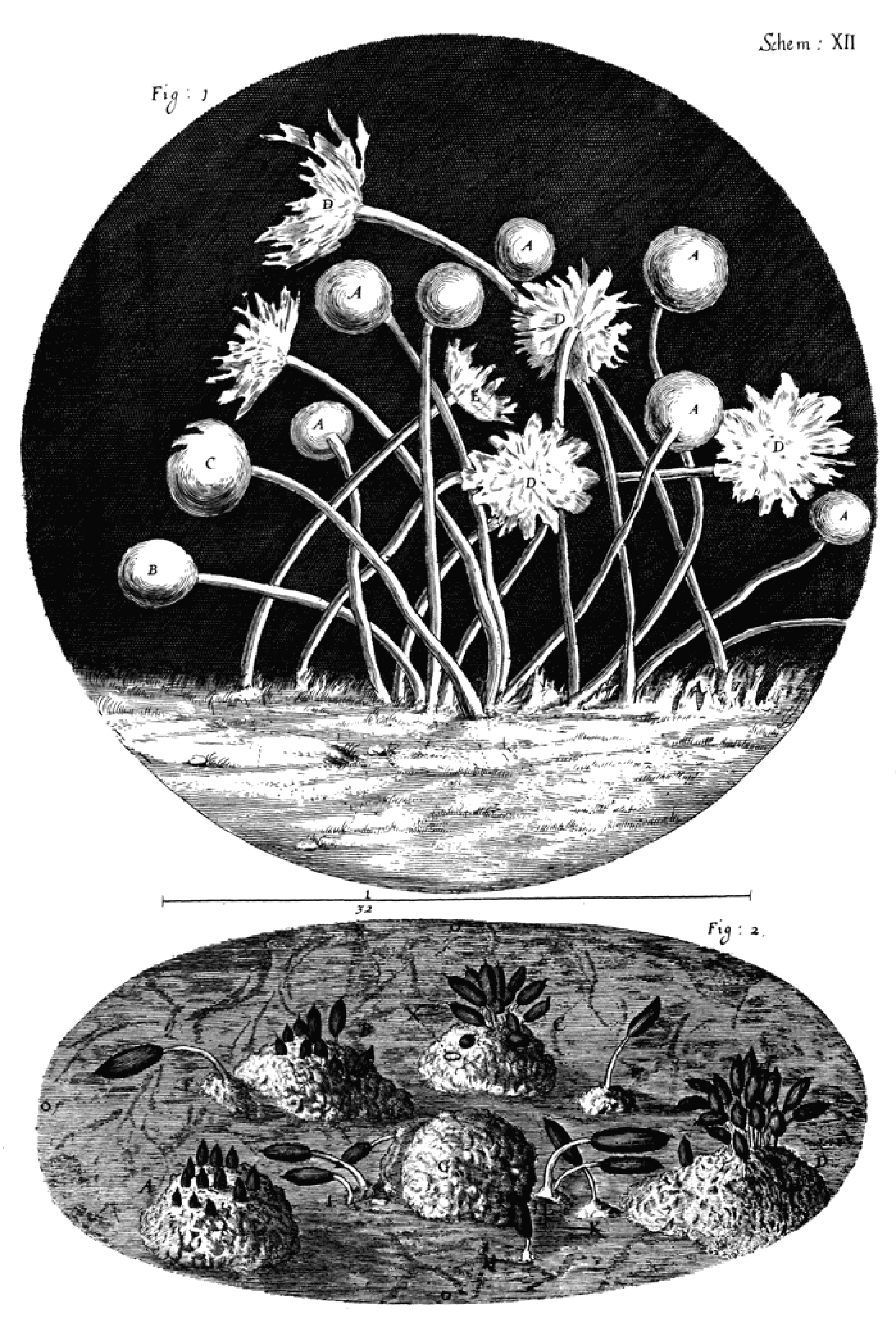 Scheme 12